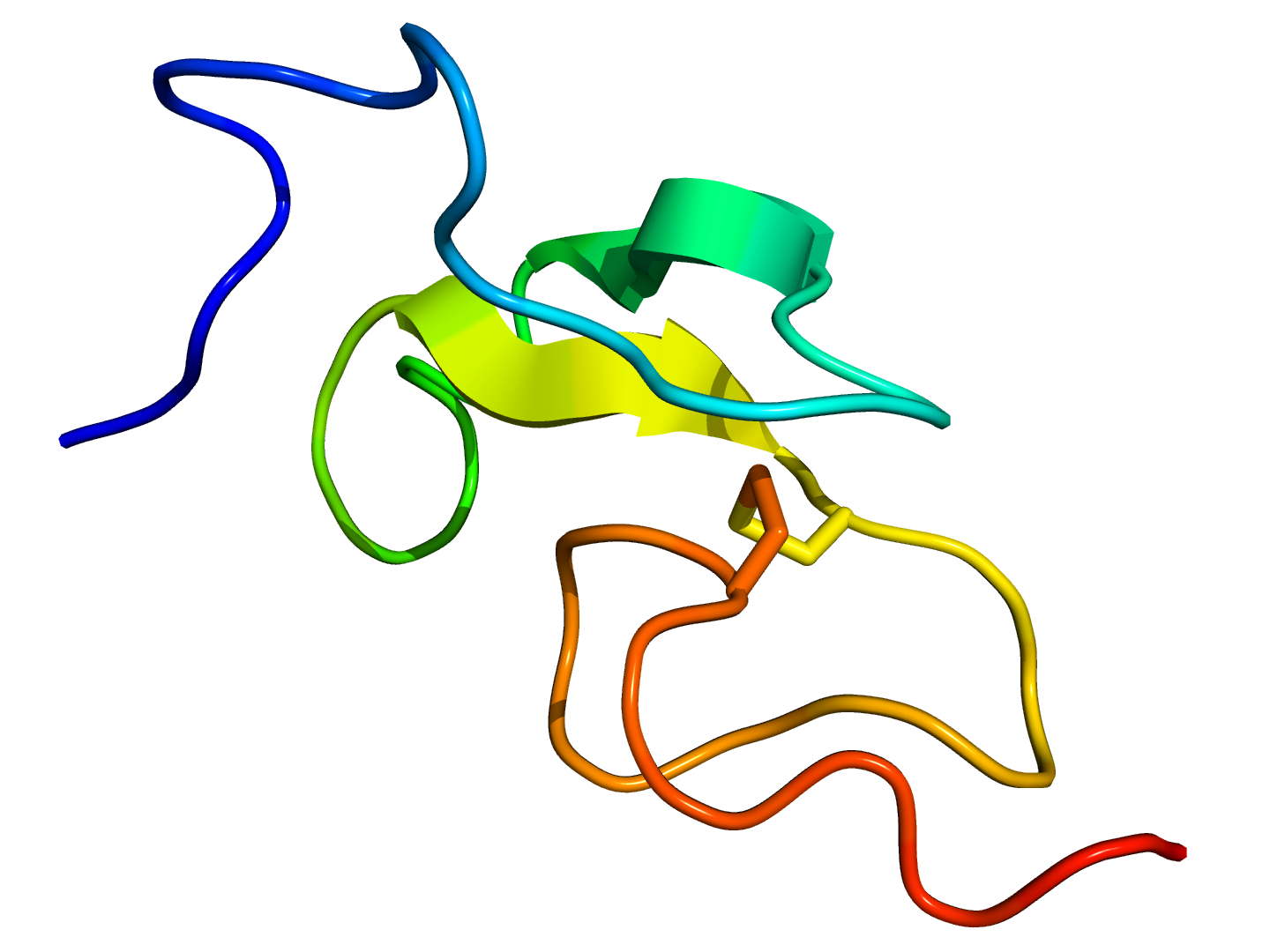 Rainbow colored NMR structure (N-terminus = blue, C-terminus = red) of the mouse epidermal growth factor.[1]